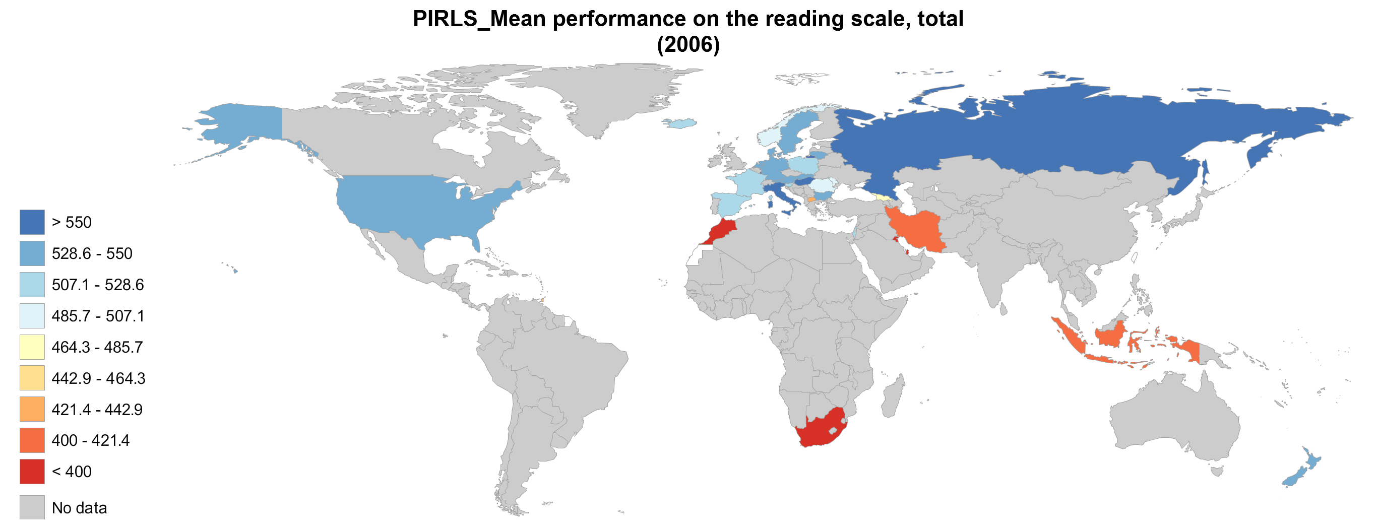 "Progress in International Reading Literacy Study" 2006 average Reading scores